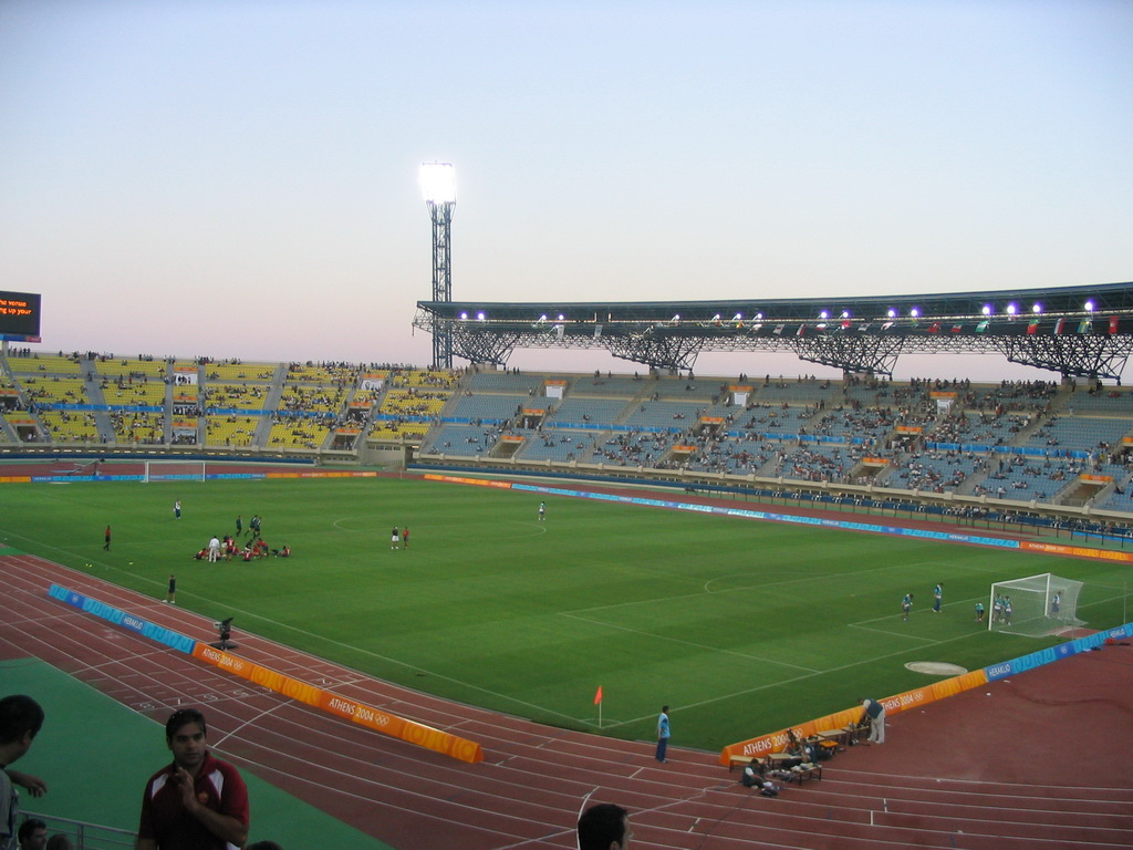 Pankritio Stadium during a 2004 Olympic Games soccer match